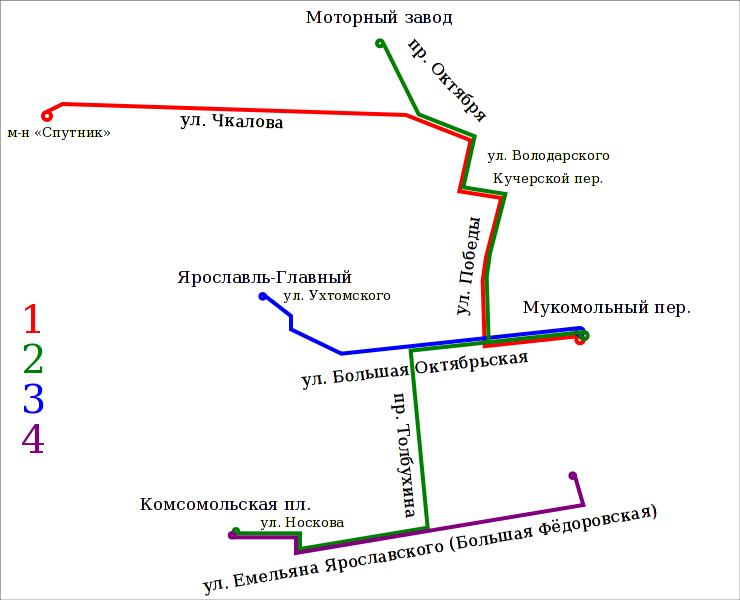 Tram lines in Yaroslavl in 1976.